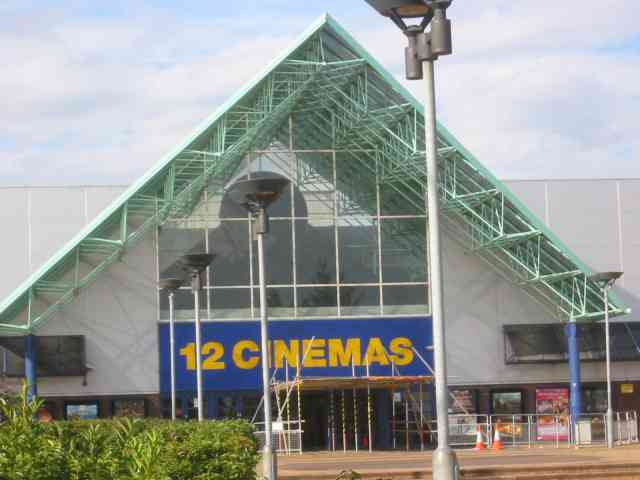 Lee Valley Leisure Complex, Enfield, London